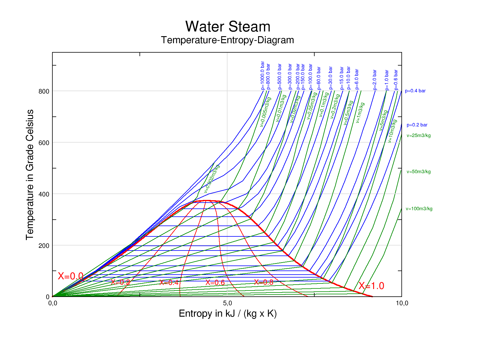 TS (temperature-entropy) diagram for water and steam, English version